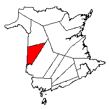 carleton county, highlighted on a map of new brunswick